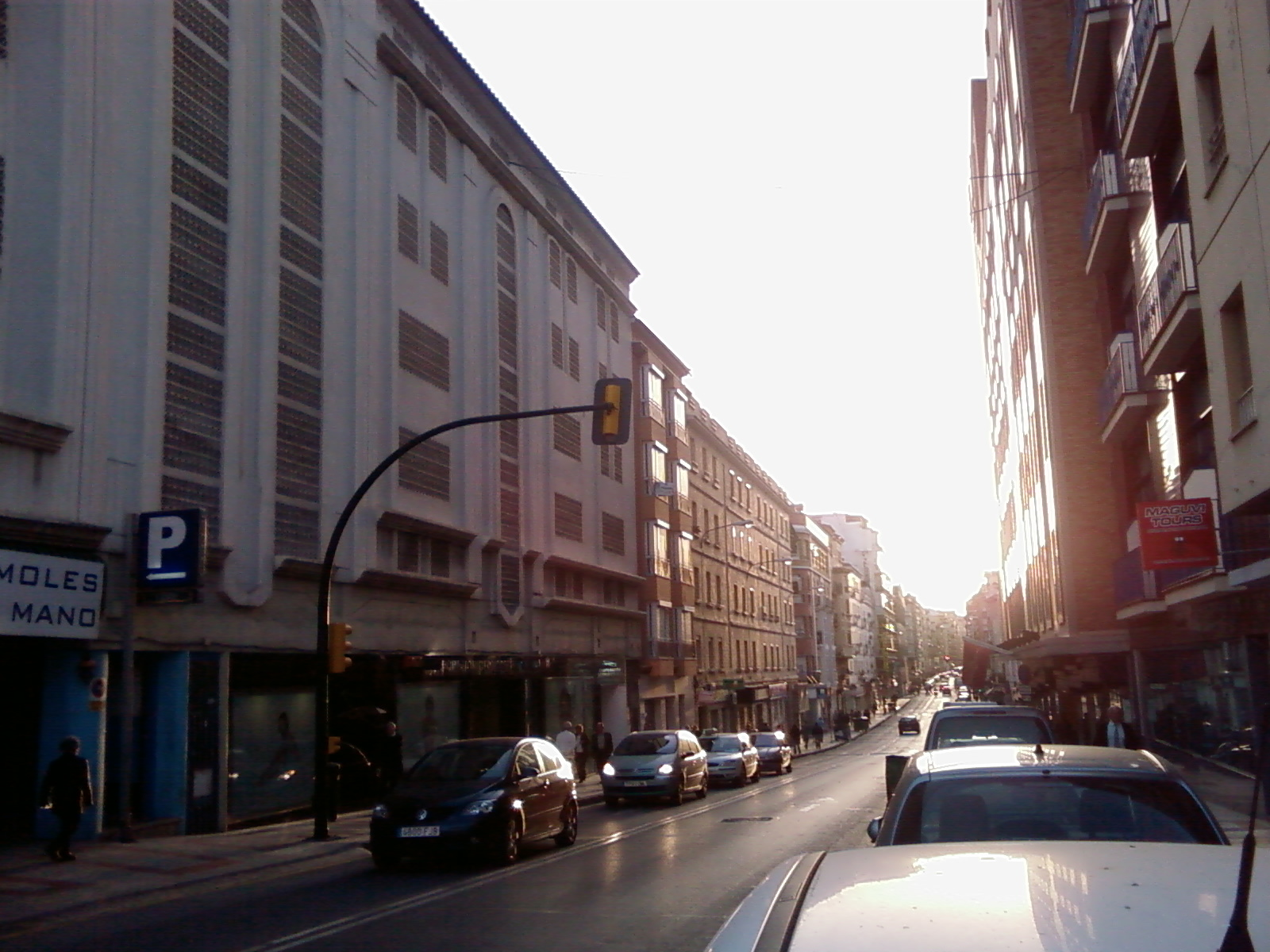 Mármoles Street, Málaga, Spain